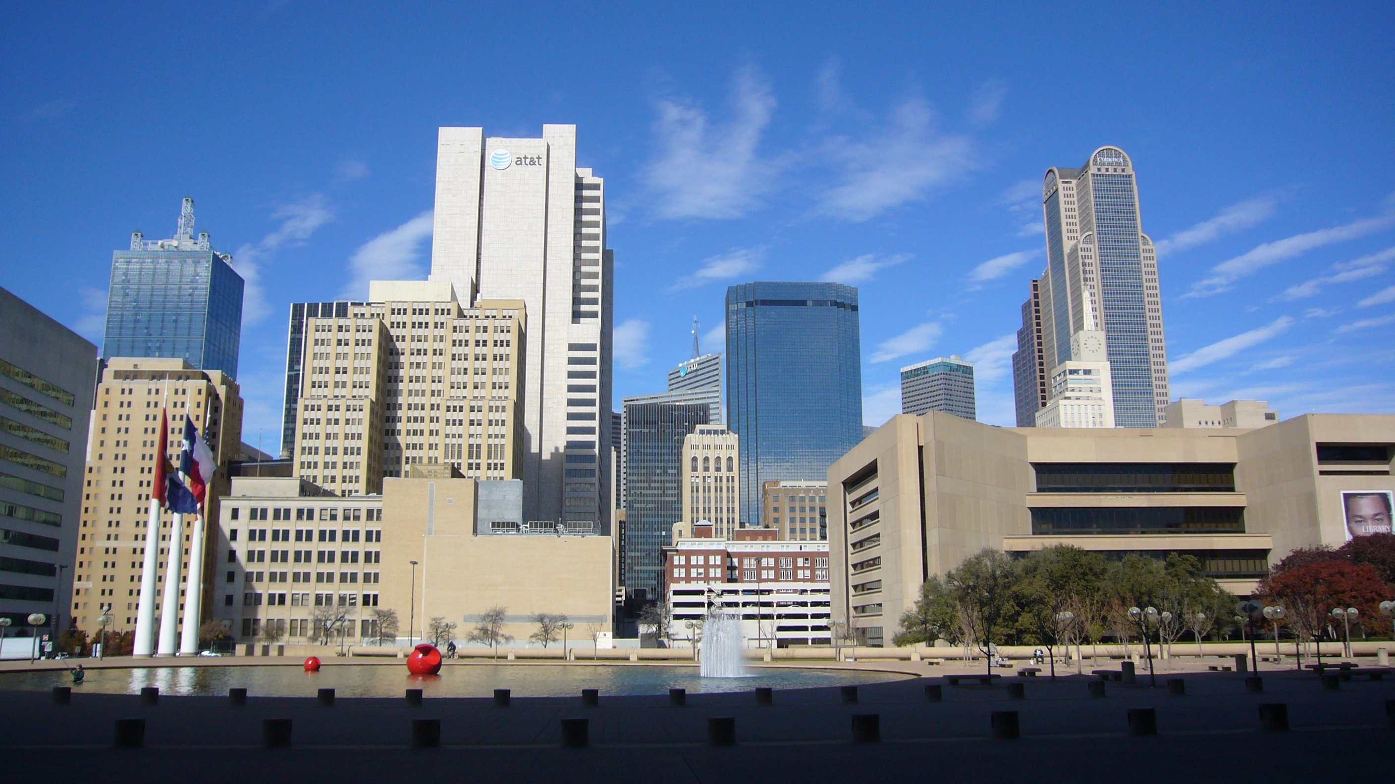 View of Downwtown Dallas from Dallas City Hall.